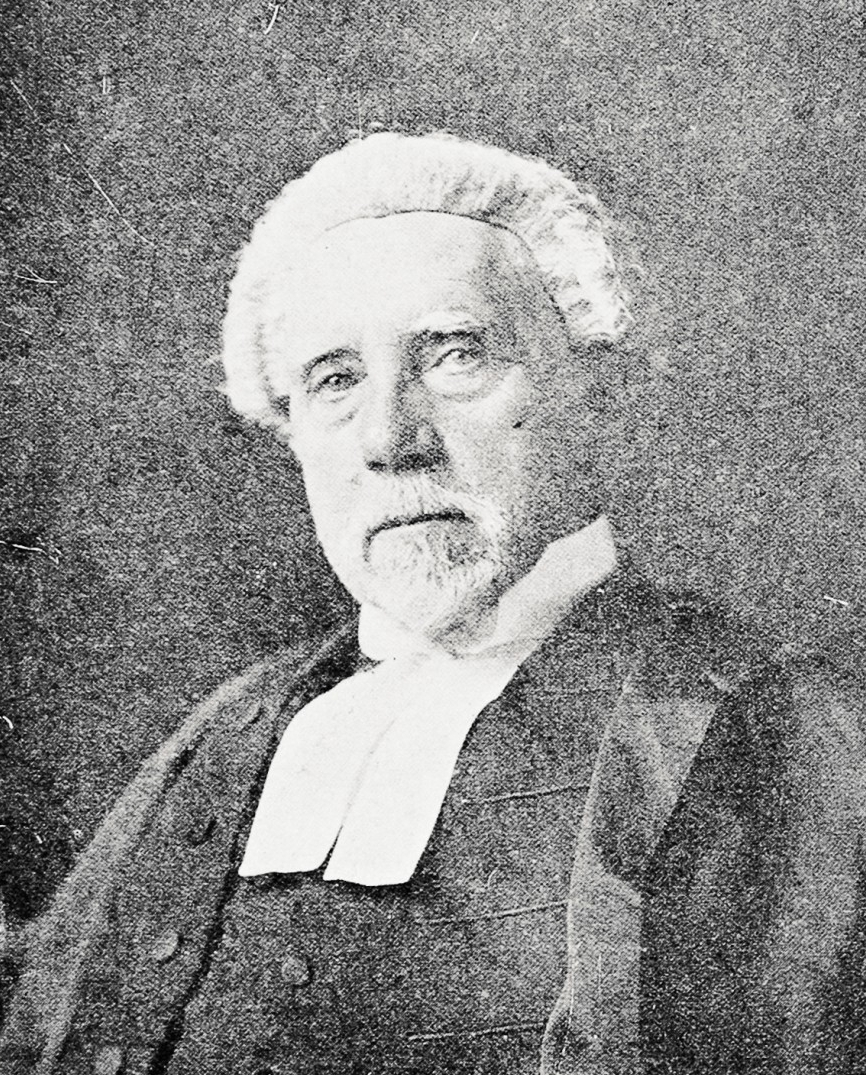 Sir Joshua Strange Williams, Ex-Judge of the New Zealand Supreme Court, whose death has been announced from London